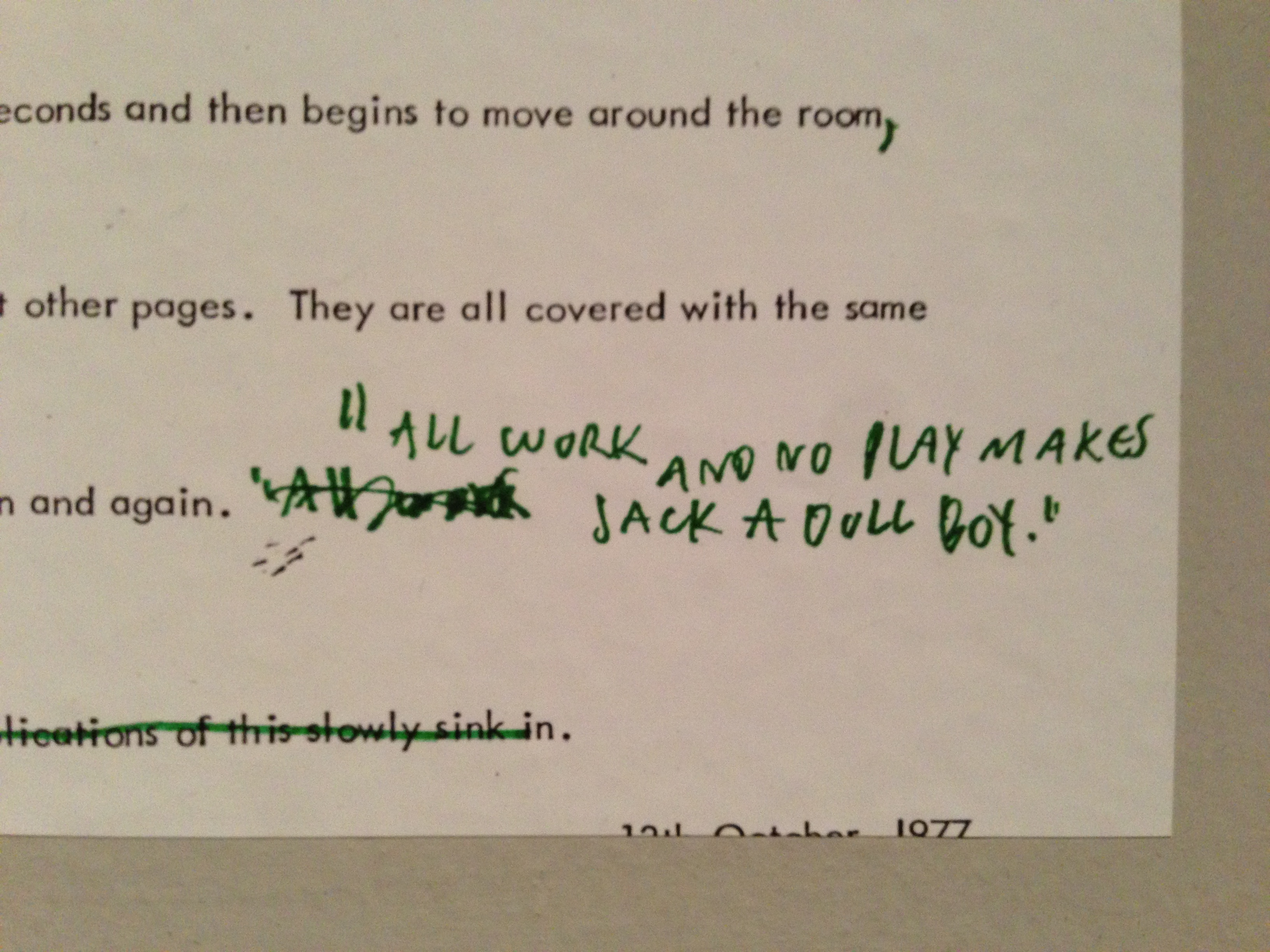 Screenplay from The Shining. Stanley Kubrick exhibit at Los Angeles County Museum of Art.